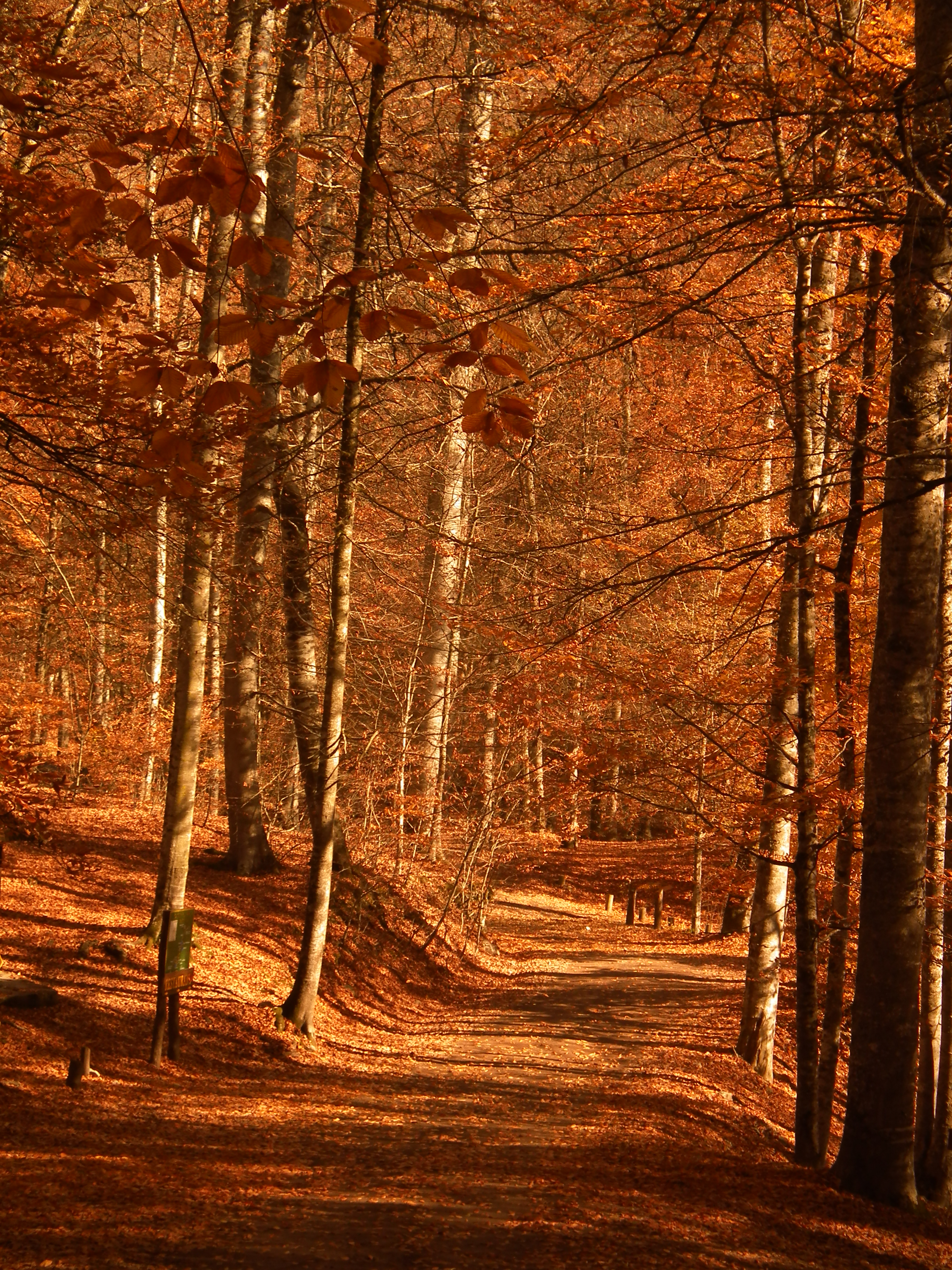 Bolu, Yedigoller National Park